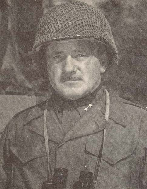 Major General Ernest N. Harmon. U.S. military personnel in course of his official duties, ineligible for copyright